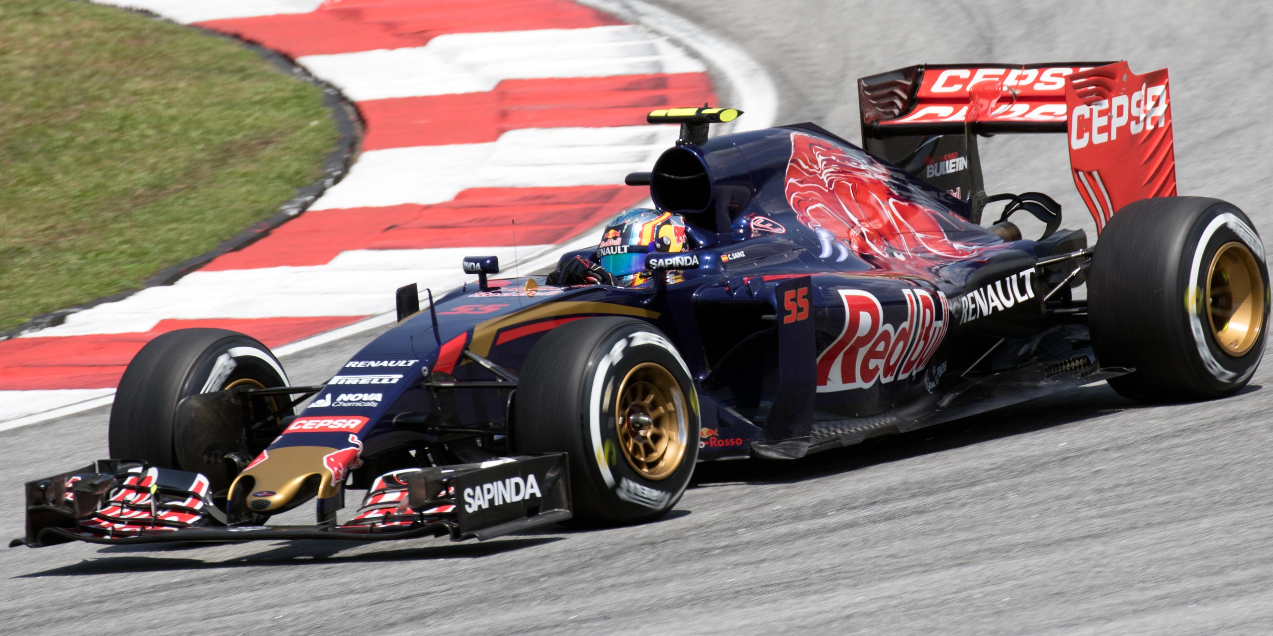 Formula One 2015 Rd.2 Malaysian GP: Carlos Sainz Jr. (Toro Rosso)